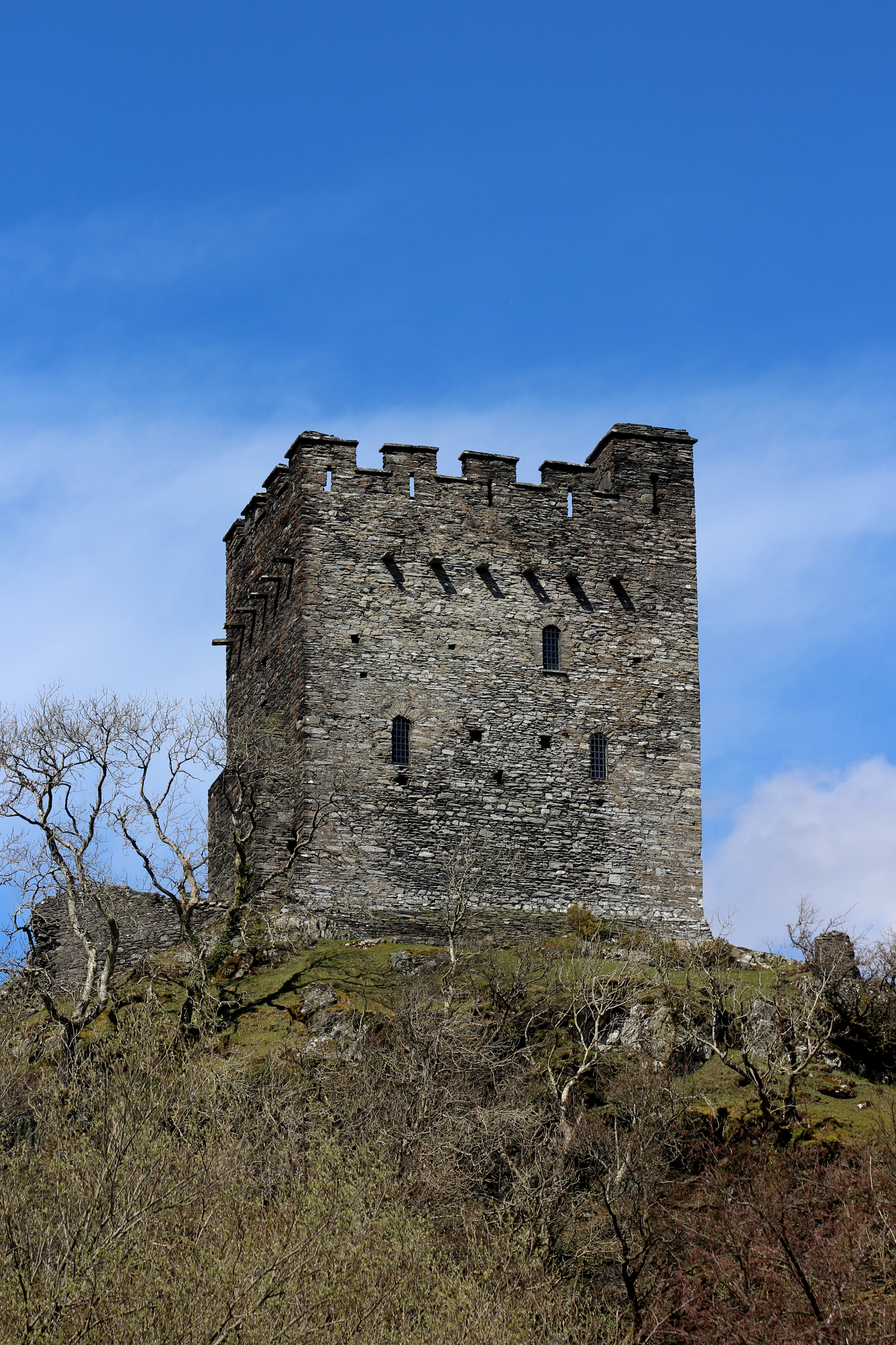 Dolwyddelan Castle, Conwy, North Wales. The castle is believed to have been built in the early thirteenth century and is the reputed birthplace of Llywelyn the Great.